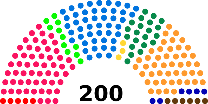 Seats diagramme of Swiss National Council (1975)